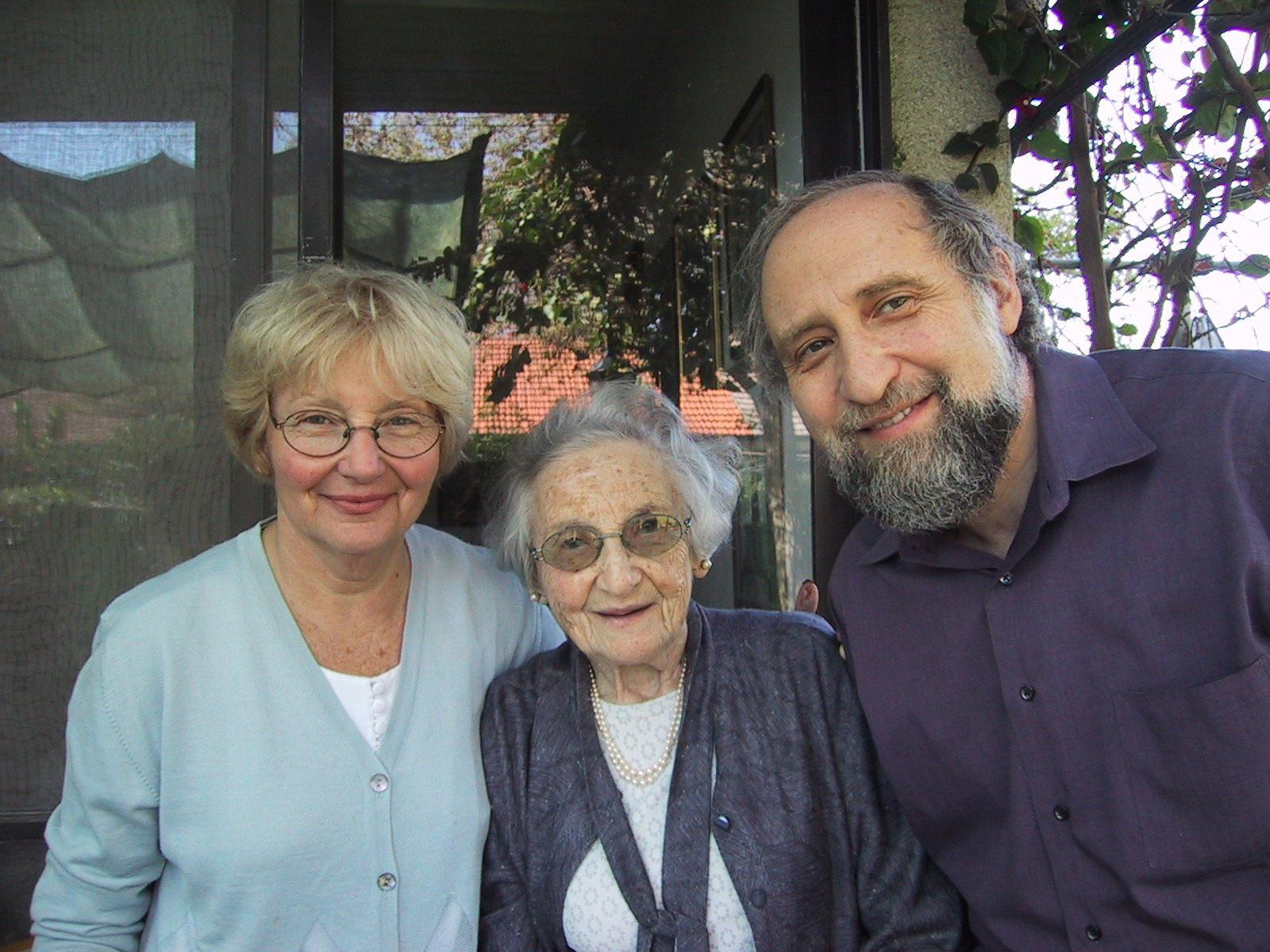 Eileen Szymin-Shneiderman with her children Ben Shneiderman and Helen Sarid in 2003